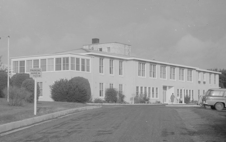 Frankston Community Hospital in Frankston, Victoria, Australia, in c1940s.